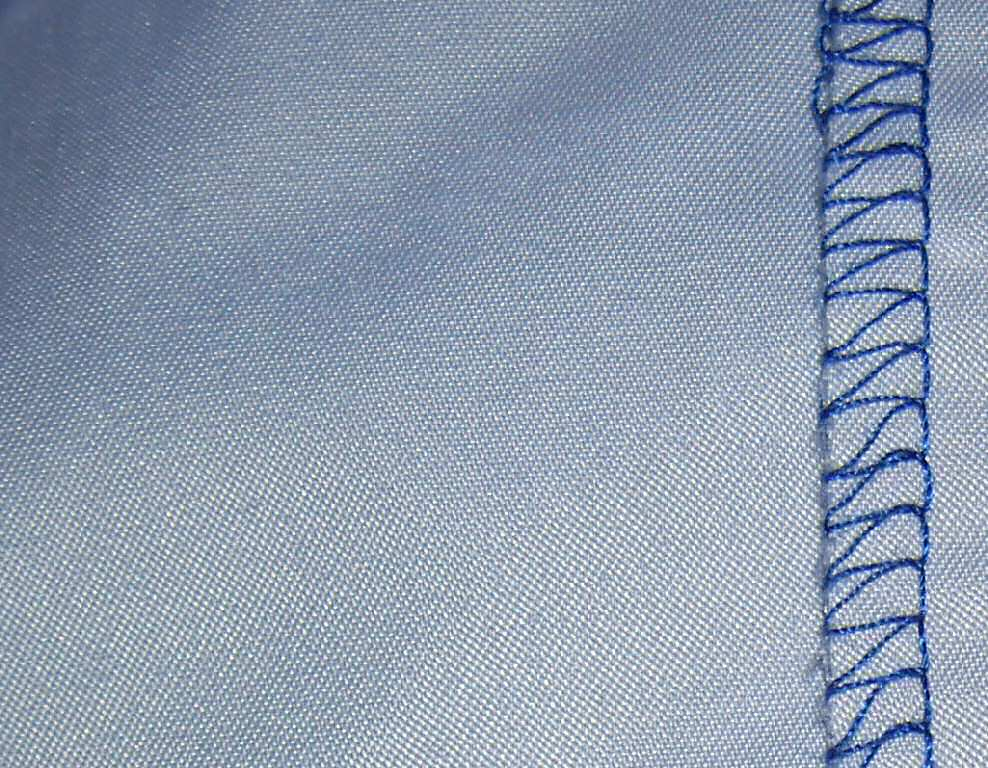 A close-up of a 100% Polyester shirt. I took this picture myself just moments ago.